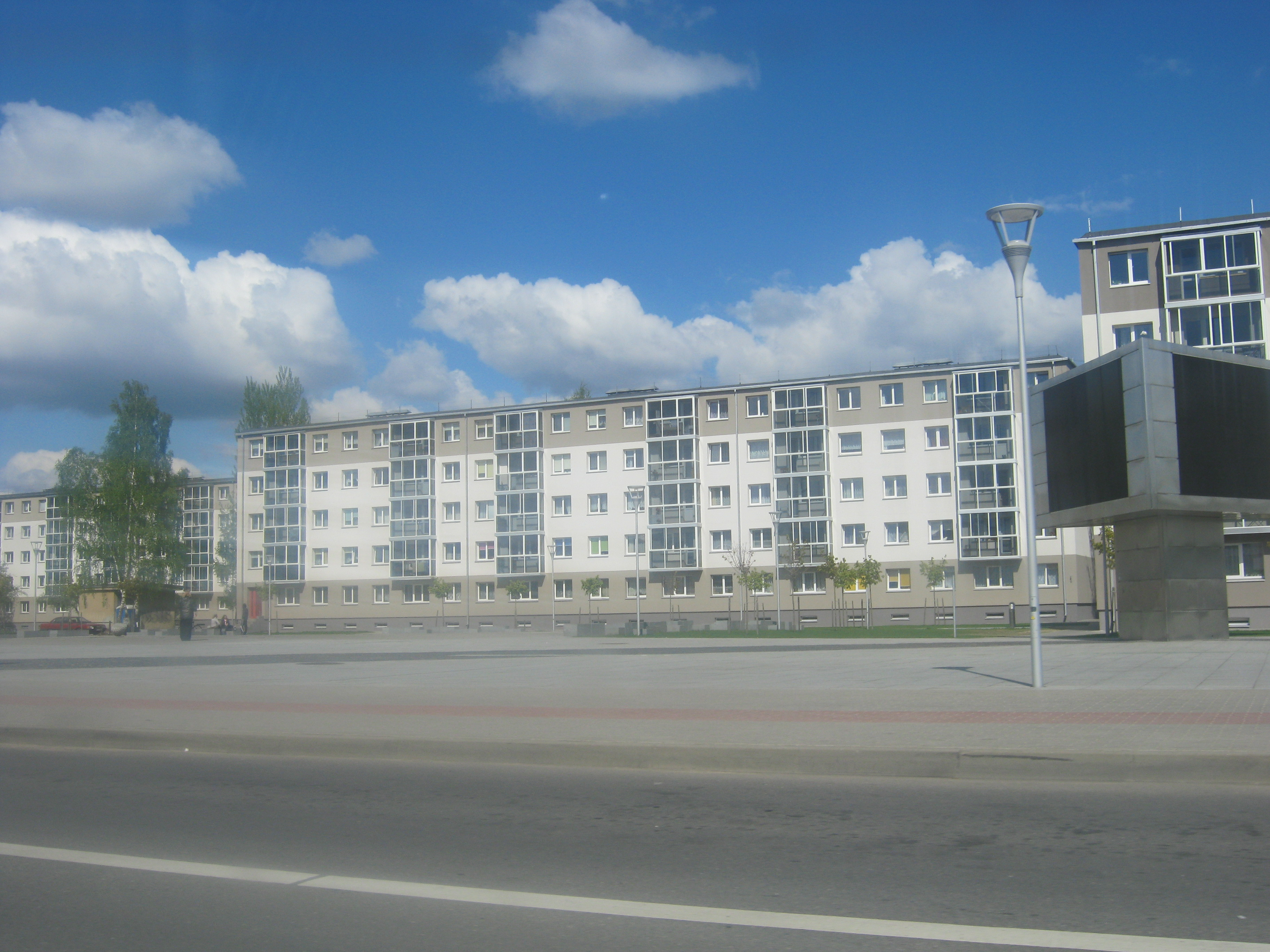 Jonava, Lithuania